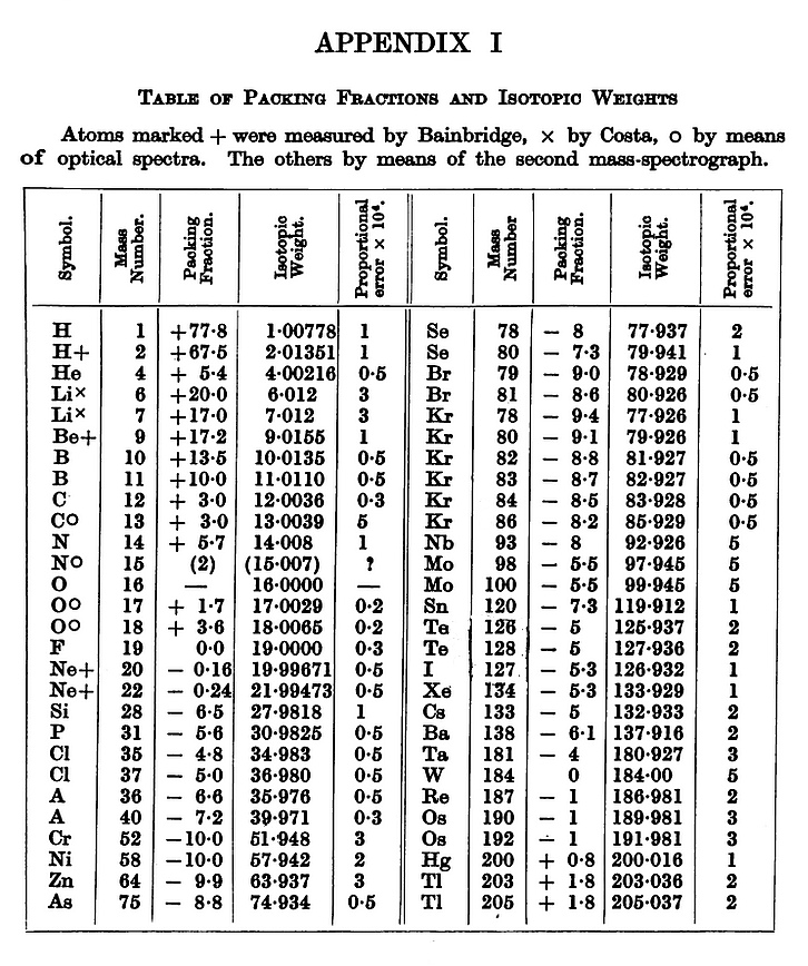 Table of the atomic masses (Isotopic Weights) from the monograph Mass-spectra and isotopes by Francis William Aston from the year 1933